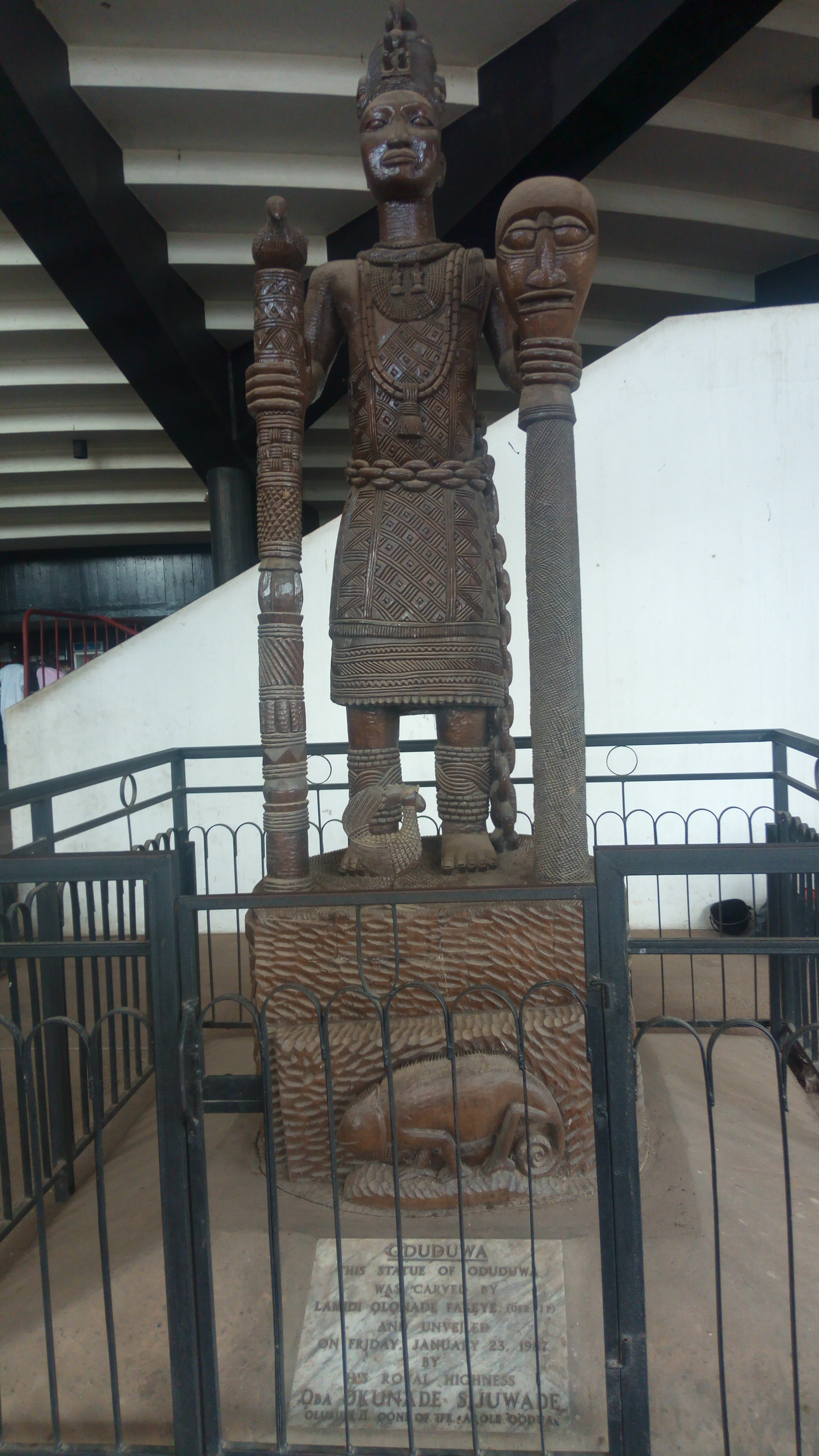 Statute of Oduduwa carved in Ile Ife